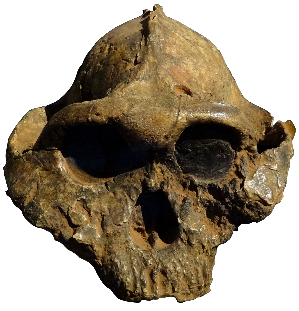 Paranthropus Boisei - Transparent Background. Based on